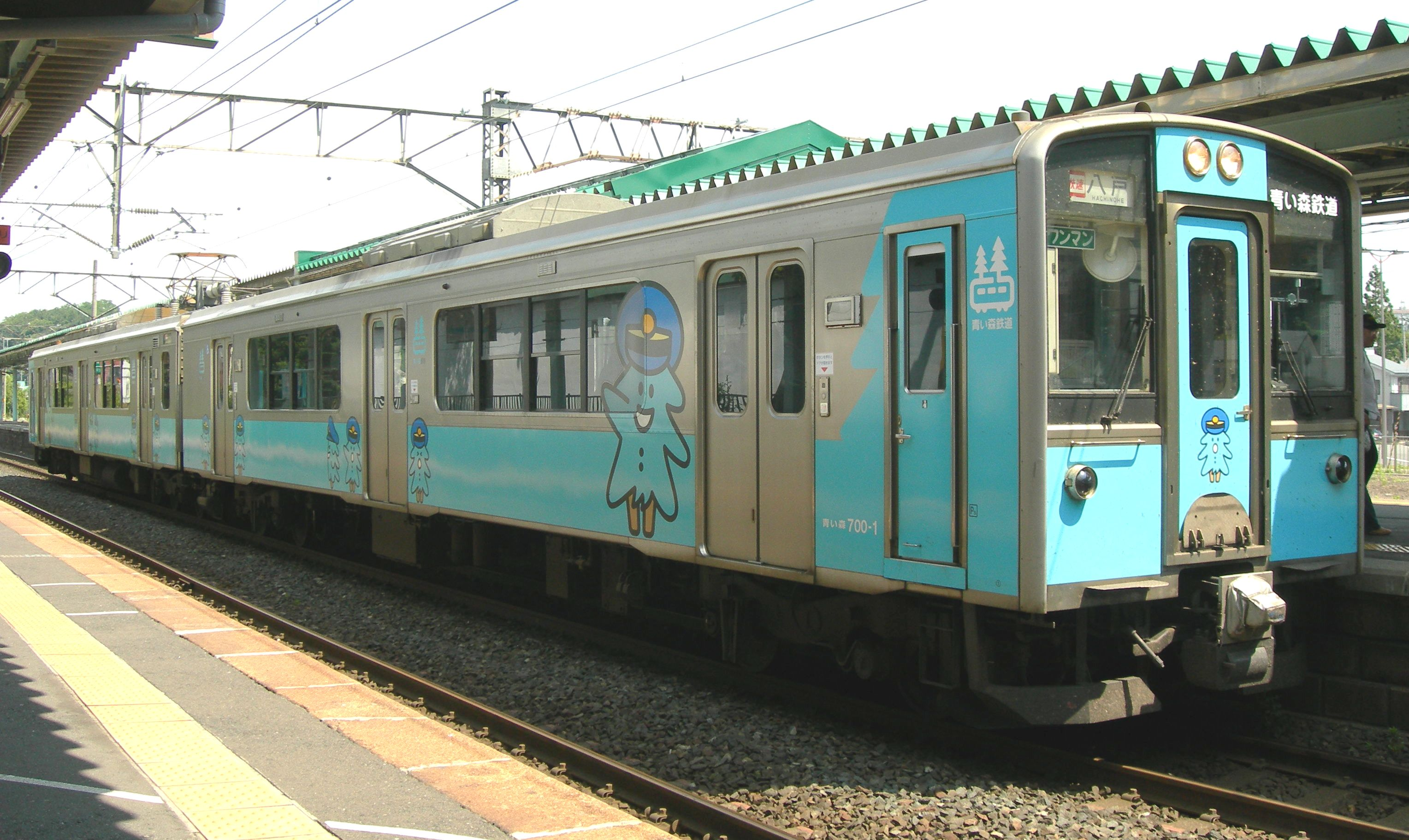 Aoimori Railway 701 series EMU at Misawa Station